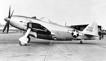 Republic XP-72 with P&W R4360 radial